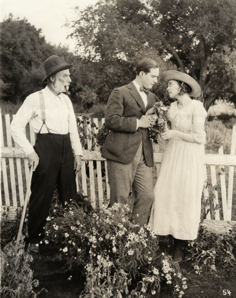 In a scruffy flower garden, Peter Van Alstyne (played by David Butler) and Nancy Scroggs (ZaSu Pitts) cast loving eyes at each other while Nancy's father Ezra Scroggs (Jack McDonald) glares at them in a scene still for the 1919 silent drama Better Times.